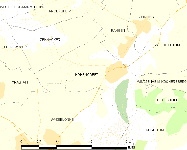 Map of French municipality